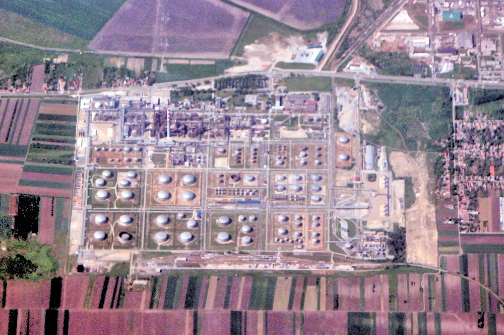 Naftna Industrija Srbije (NIS) oil refinery in Pančevo, Serbia.